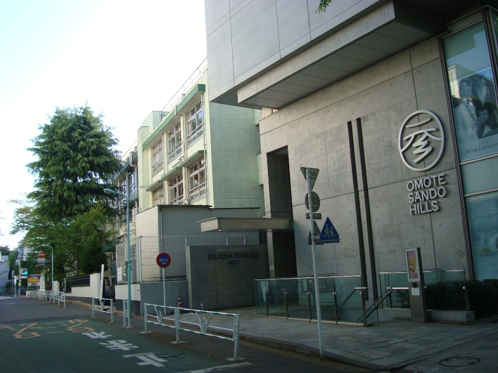 Jingumae Elementary School (left) and the Omotesando Hills building (right)